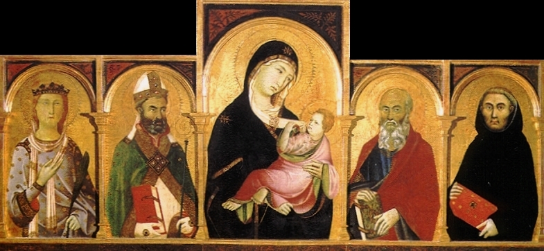 Francesco di Segna (Scuola di Duccio), Polittico Madonna col Bambino e Santi, Montalcino, Museo Diocesano.